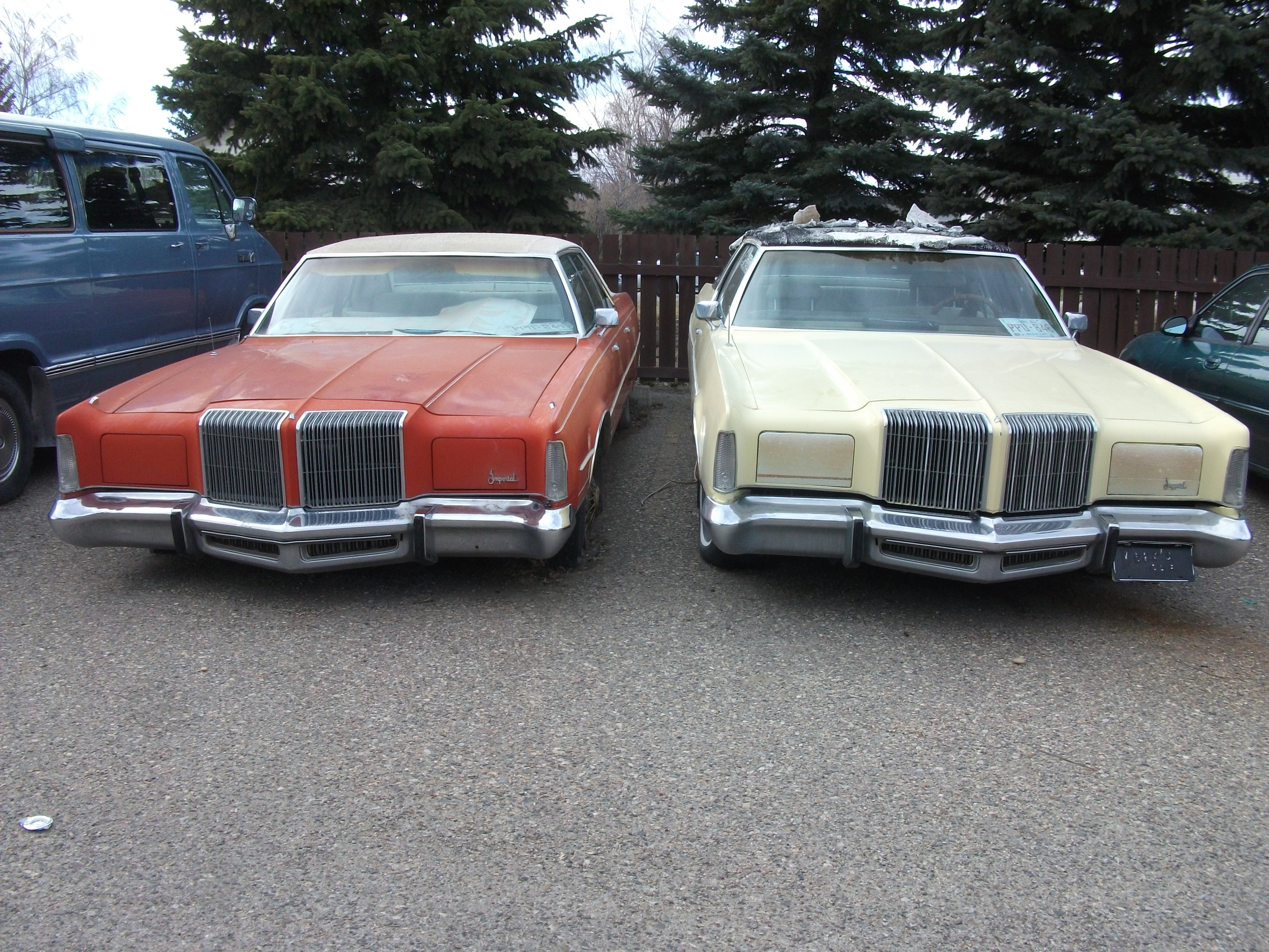 Set of of Chrysler Imperials - the cream one a two door and the red is a four door.